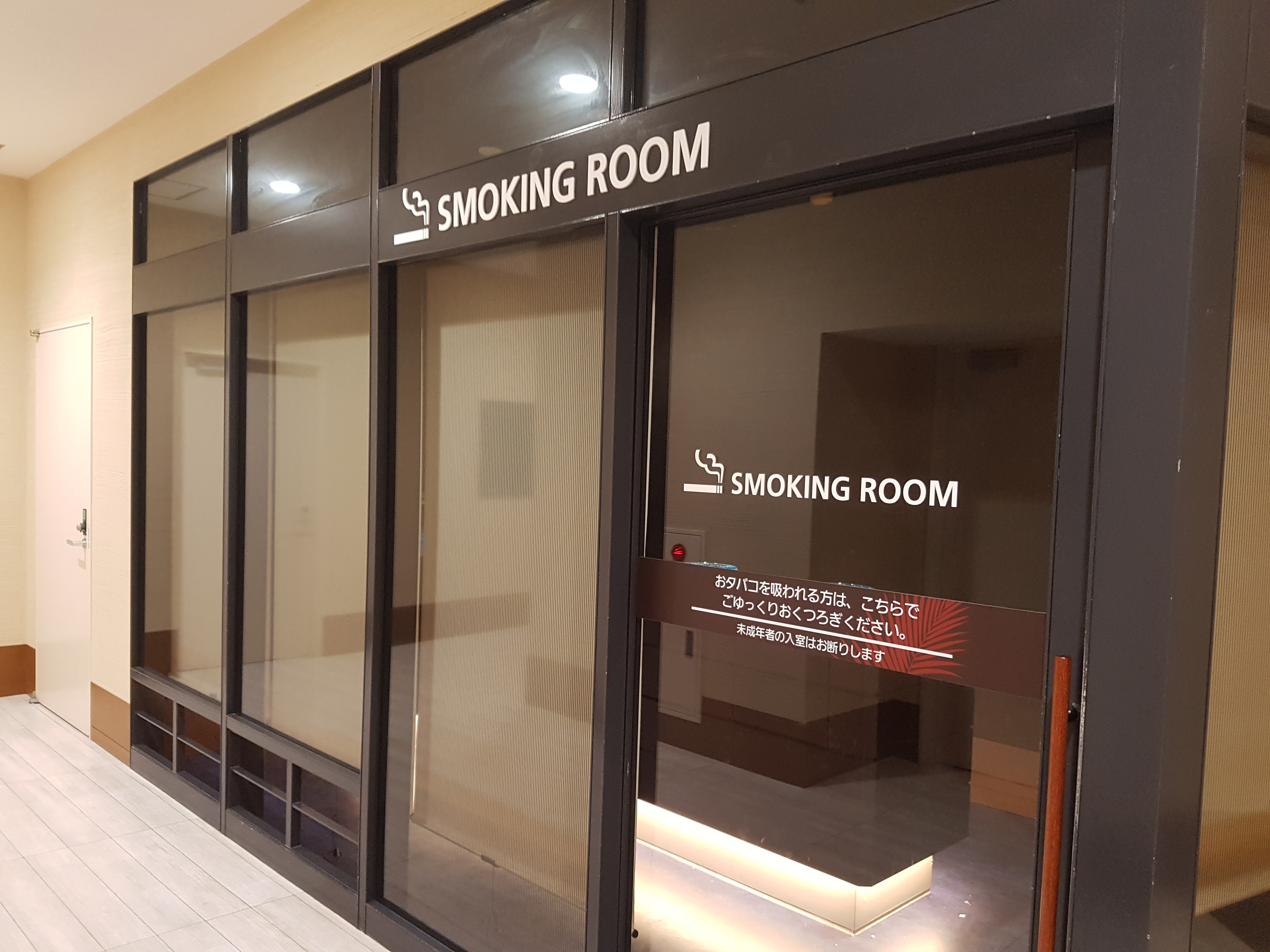 A smoking room at a Japanese mall